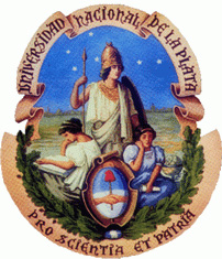 Logo of the National University of de La Plata, Argentina.